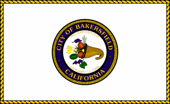 The official city flag of Bakersfield, California.